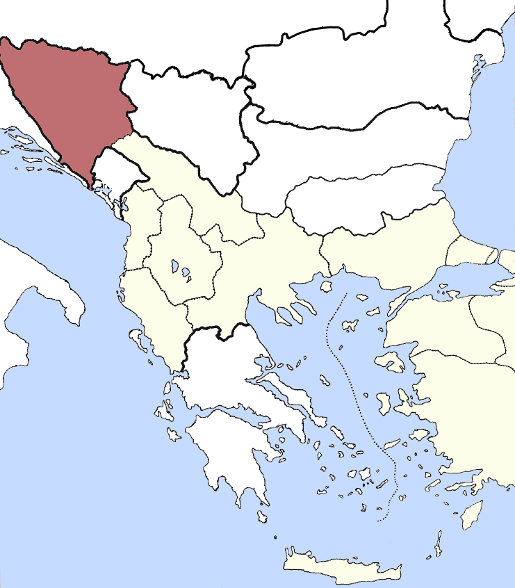 XY Vilayet, Ottoman Empire (1880s).